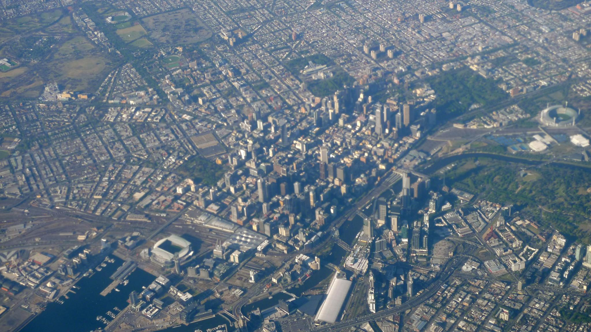 Melbourne aerial